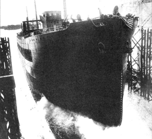 Empire Arrow, built for the Standard Transportation Co., was launched in the South Yard of the New York Shipbuilding Corp., Camden, N.J. May 24